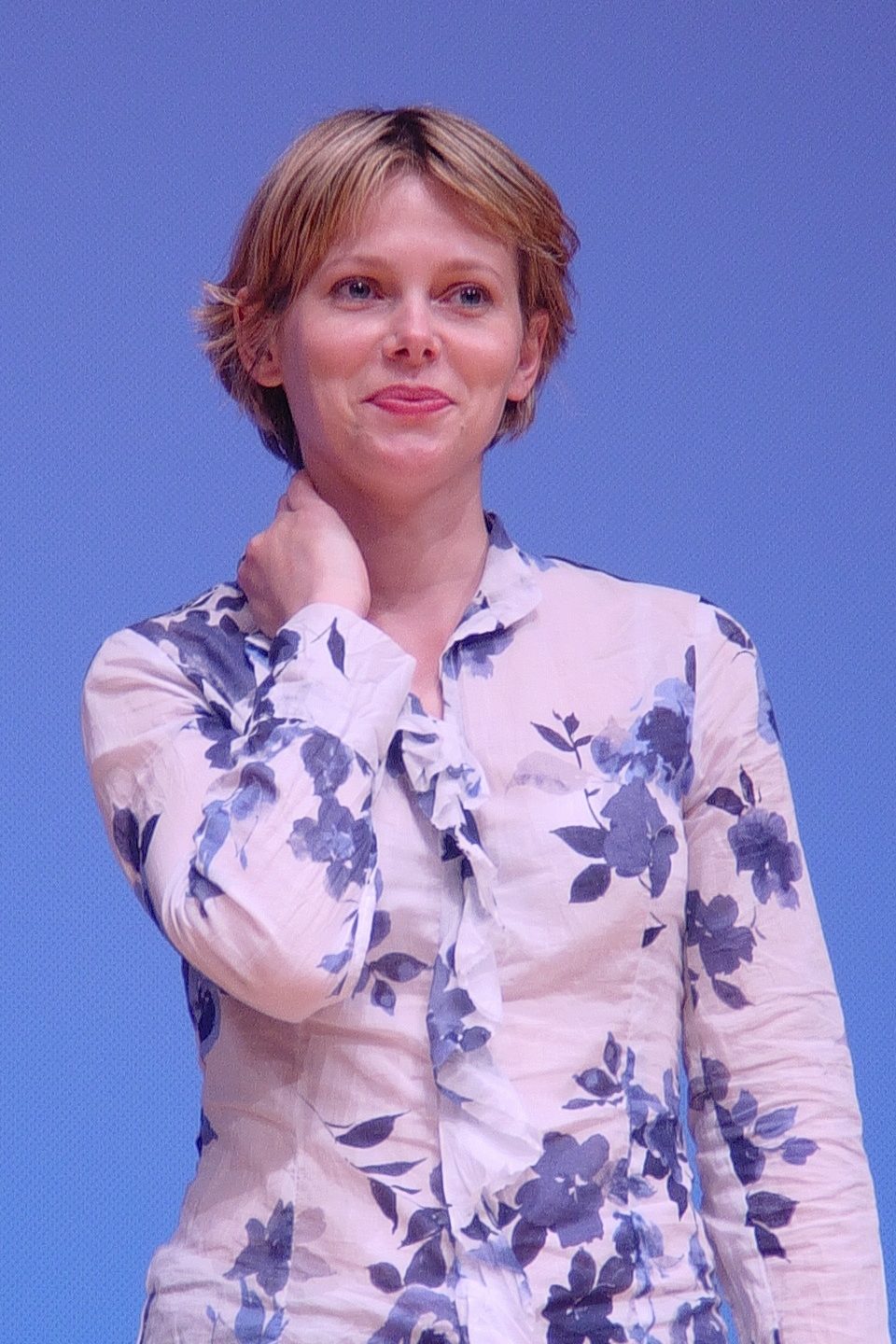 Slovak actress Barbora Bobulová at the Italian Film Festival in Tokyo, 3 May 2006